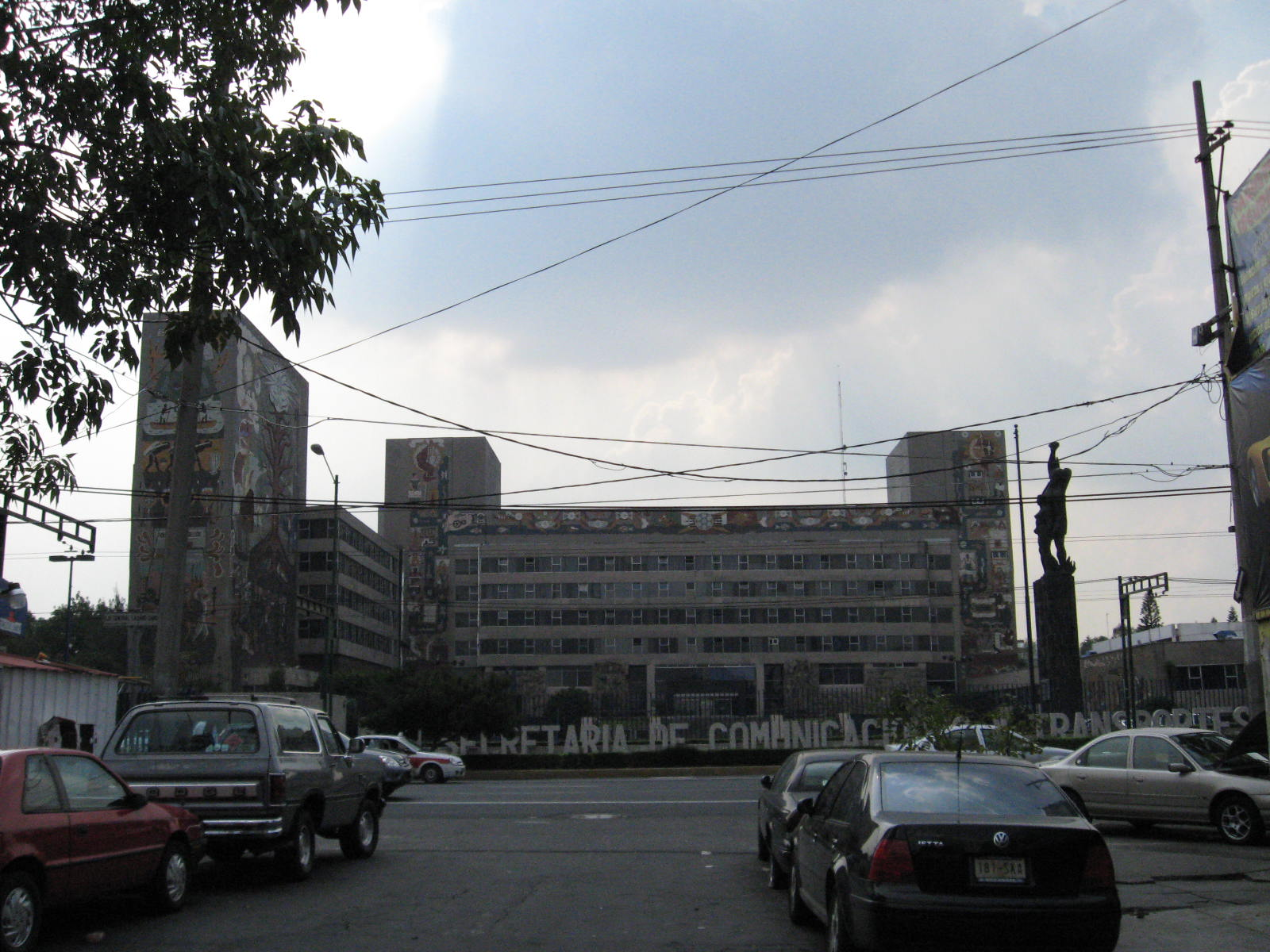 Overview of the headquarters of the Secretaría de Comunicaciones y Transportes on Eje Central in Mexico City